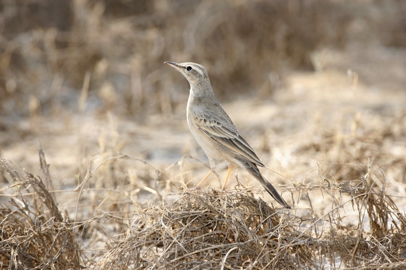 Long-billed Pipit / Persian Rock Pipit Anthus similis decaptus November 28, 2006 Little Rann of Kutch, Gujerat, India Same individual from a different angle: Distribution: Persian Rock Pipit (Anthus similis decaptus) Long-billed Pipit (Anthus similis) _Q0S1995